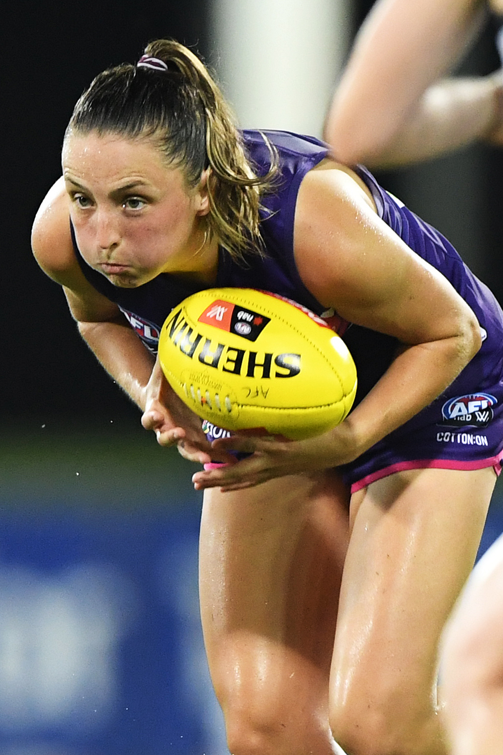 Ashley Sharp of Fremantle during the 2019 AFL Women's practice match between the Adelaide Football Club and Fremantle Football Club at TIO Stadium on January 19, 2019 in Darwin Australia.